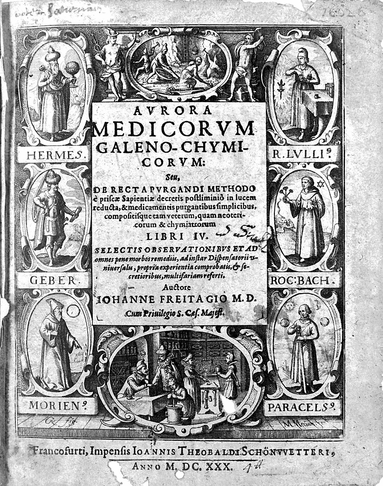 Title page: alchemists Rare Books Keywords: alchemy, 17th century; Johann Freitag